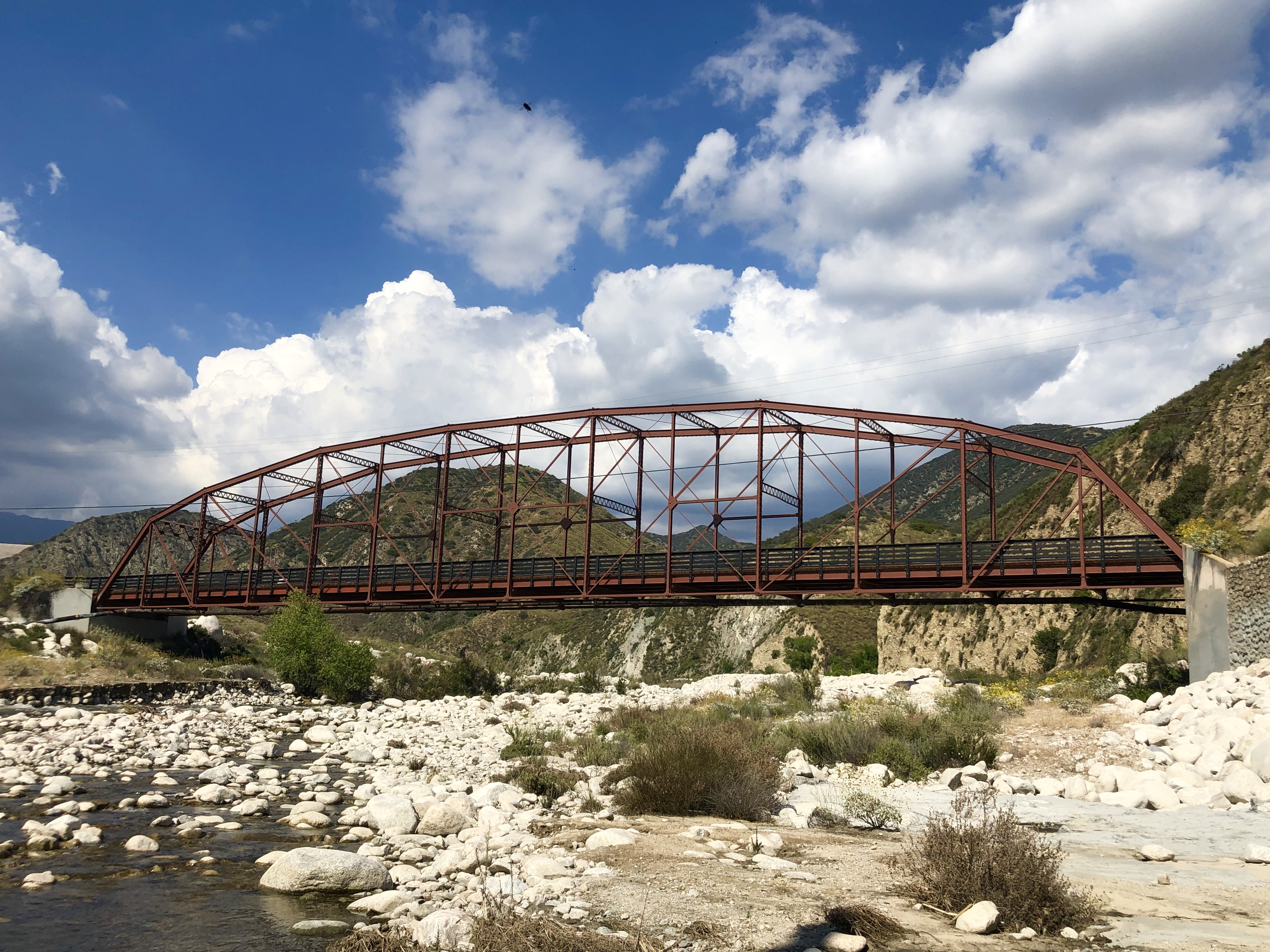 Santa Ana River Bridge overlooking the river in Highland, California.